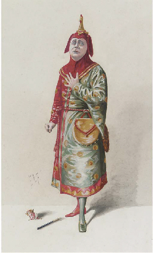 Caricature of Charles H. Workman dressed as Jack Point in The Yeomen of the Guard. The Vanity Fair caption reads, "Through every passion raging". Accompanying biography read "The only part of him which gets tired is his tongue, and occasionally the oft-repeated lines have got muddled. 'Self-constricted ruddles', 'his striggles were terruffic', and 'deloberately rib me' are a few of the spoonerisms he has perpetrated. Success has not spoilt him. He is a professional humourist, who has been known to make an Englishman laugh at breakfast".